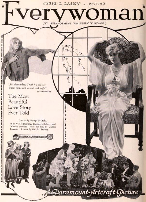 Advertisement for the American allegorical film Everywoman (1919) with Wanda Hawley (Beauty), Edythe Chapman (Truth), Theodore Roberts (Wealth), and Violet Heming (Everywoman), on the inside front cover of the December 20, 1919 Exhibitors Herald.